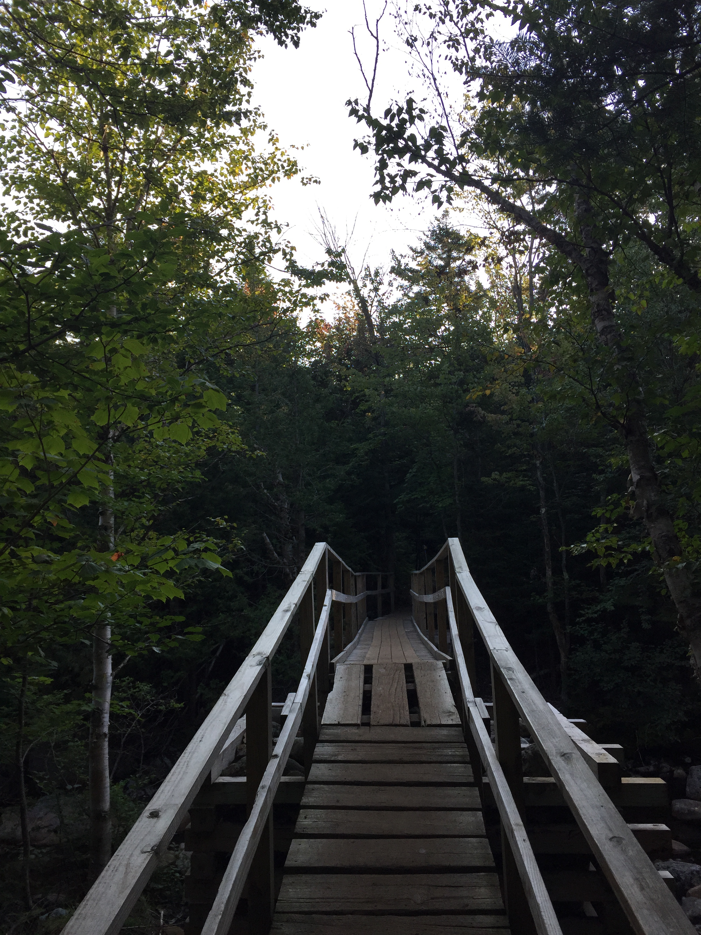 View south along the Van Hoevenberg Trail at the Marcy Brook Bridge about 2.2 miles south of the trailhead in North Elba, Essex County, New York